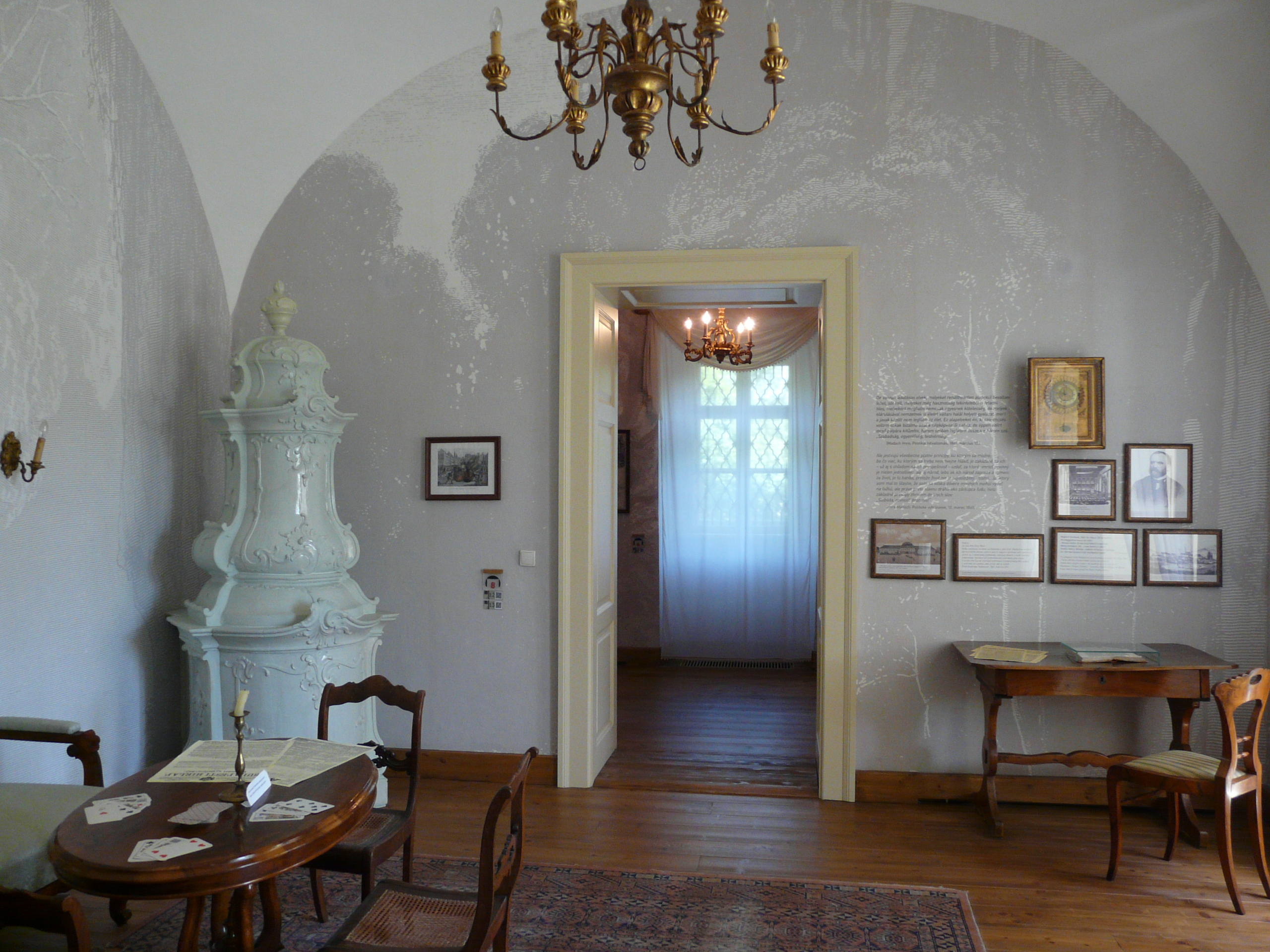 Room interior. The permanent exhibition in Madách Mansion, Dolná Strehová